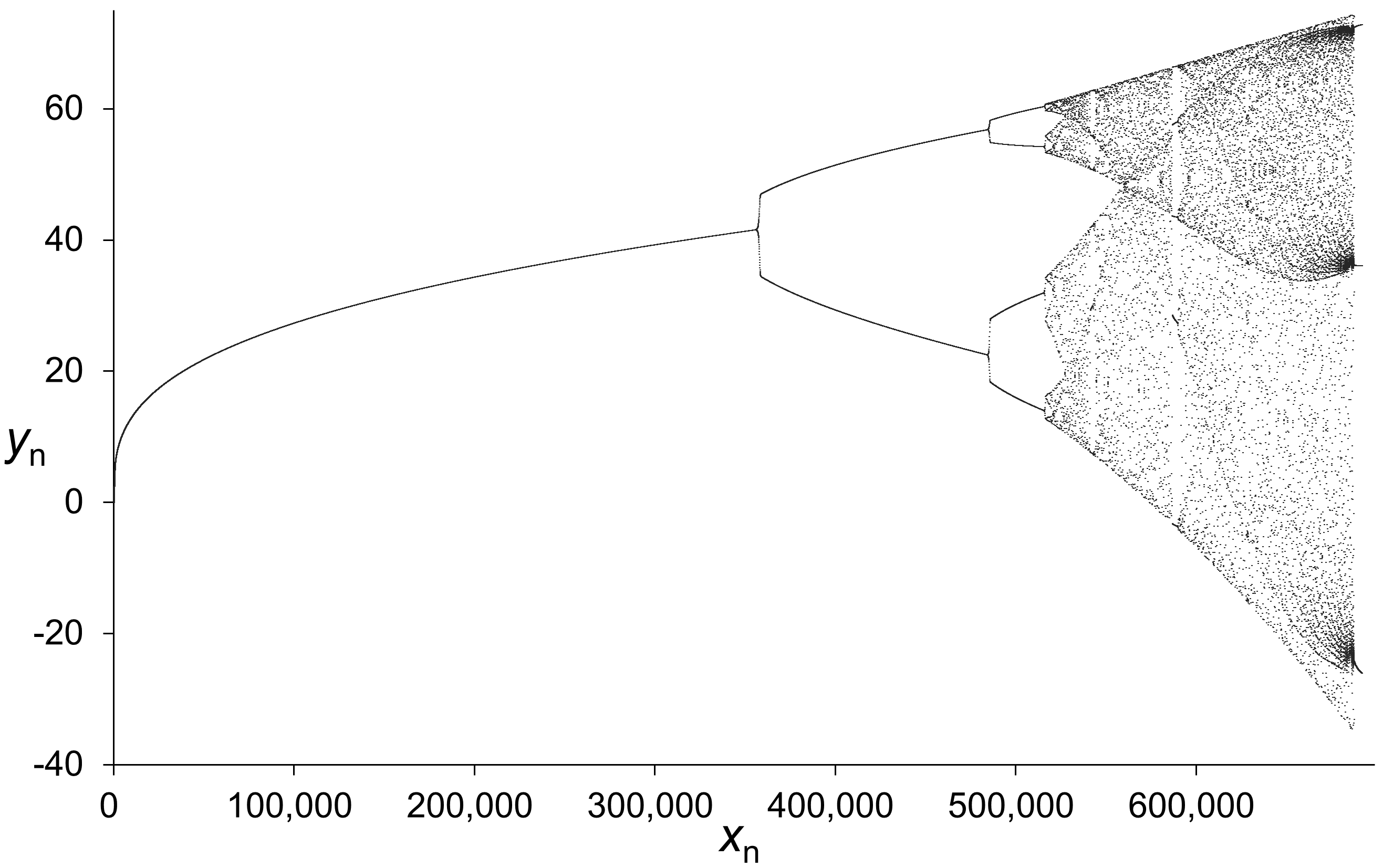 Orbit on phase plane of Gumowski-Mira map given by the 2-dimensional discrete dynamical system: x n + 1 = y n + α y n ( 1 − σ y n 2 ) + g ( x n ) , {\displaystyle x_{n+1}=y_{n}+\alpha y_{n}(1-\sigma y_{n}^{2})+g(x_{n}),} y n + 1 = − x n + g ( x n + 1 ) . {\displaystyle y_{n+1}=-x_{n}+g(x_{n+1}).} Where, g ( x ) = μ x + 2 ( 1 − μ ) x 2 1 + x 2 {\displaystyle g(x)=\mu x+{\frac {2(1-\mu )x^{2 {1+x^{2 The parameters are α = 0.008, σ = 0.05, μ = 1.00004. The initial values are x0 = 0.01, y0 = 0.01. The iteration number is 100000. The orbit converges to the stable 3-periodic point, ( 691683.0674 , 72.87648721 ) , ( 691629.3758 , − 26.0264592 ) , ( 691637.8581 , 36.14774404 ) . {\displaystyle (691683.0674,72.87648721),\ (691629.3758,-26.0264592),\ (691637.8581,36.14774404).} However, the orbit behaves like the bifurcation diagram of Logistic map until it converes to the periodic point. This diagram was made with reference to the following paper: 高橋 純・増田 尚美・山田 泰司・合原 一幸、1999、「GumowskiとMiraの写像の過渡的振舞い」、『電子情報通信学会論文誌. A, 基礎・境界』82巻10号、電子情報通信学会、NAID 110003313432 pp. 1664–1667